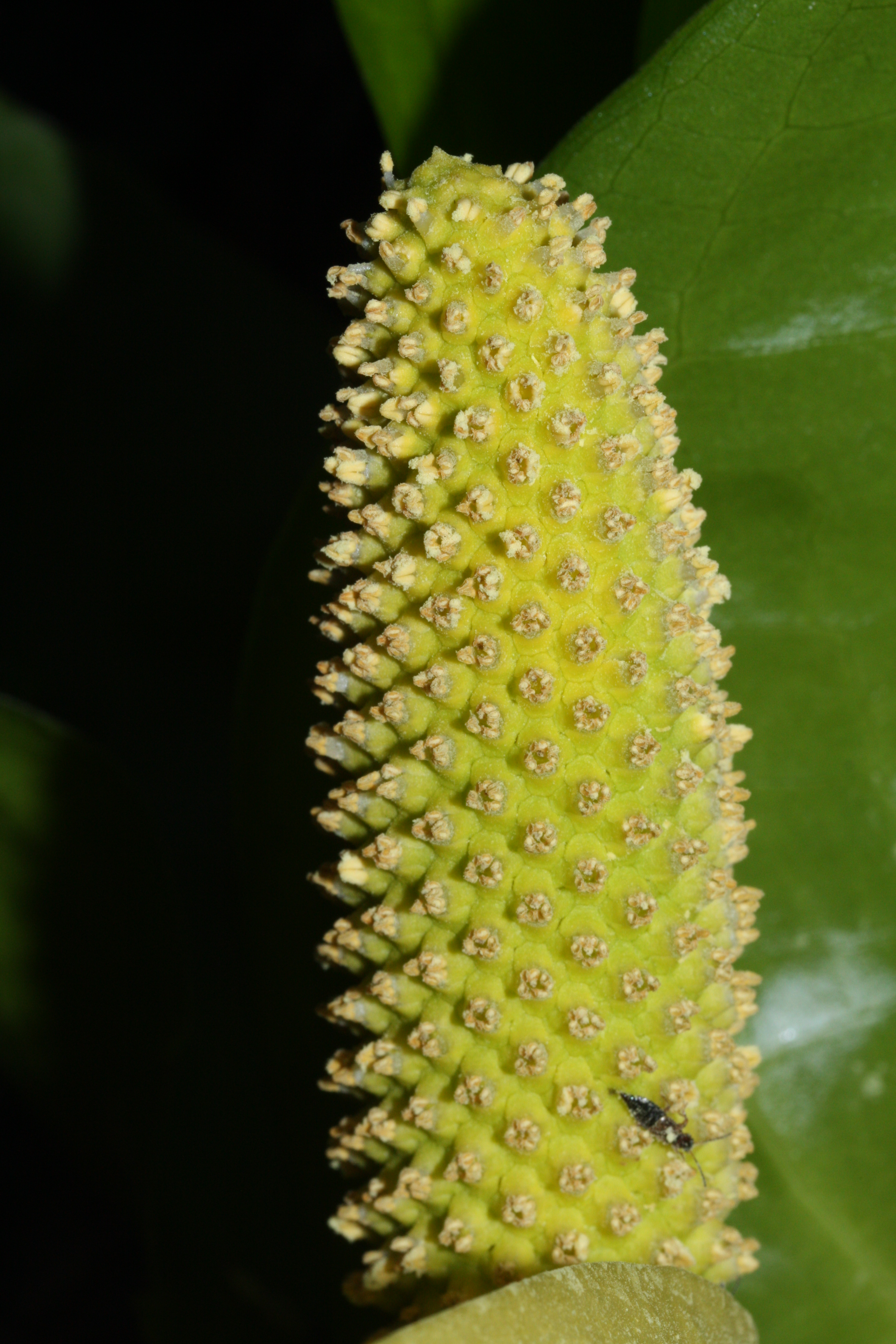 American Skunk Cabbage, Yellow Skunk Cabbage Blossom Detail